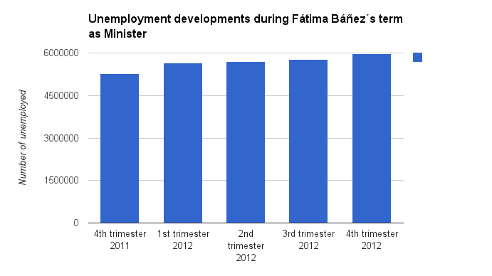 Graphic about Fátima Báñez works.